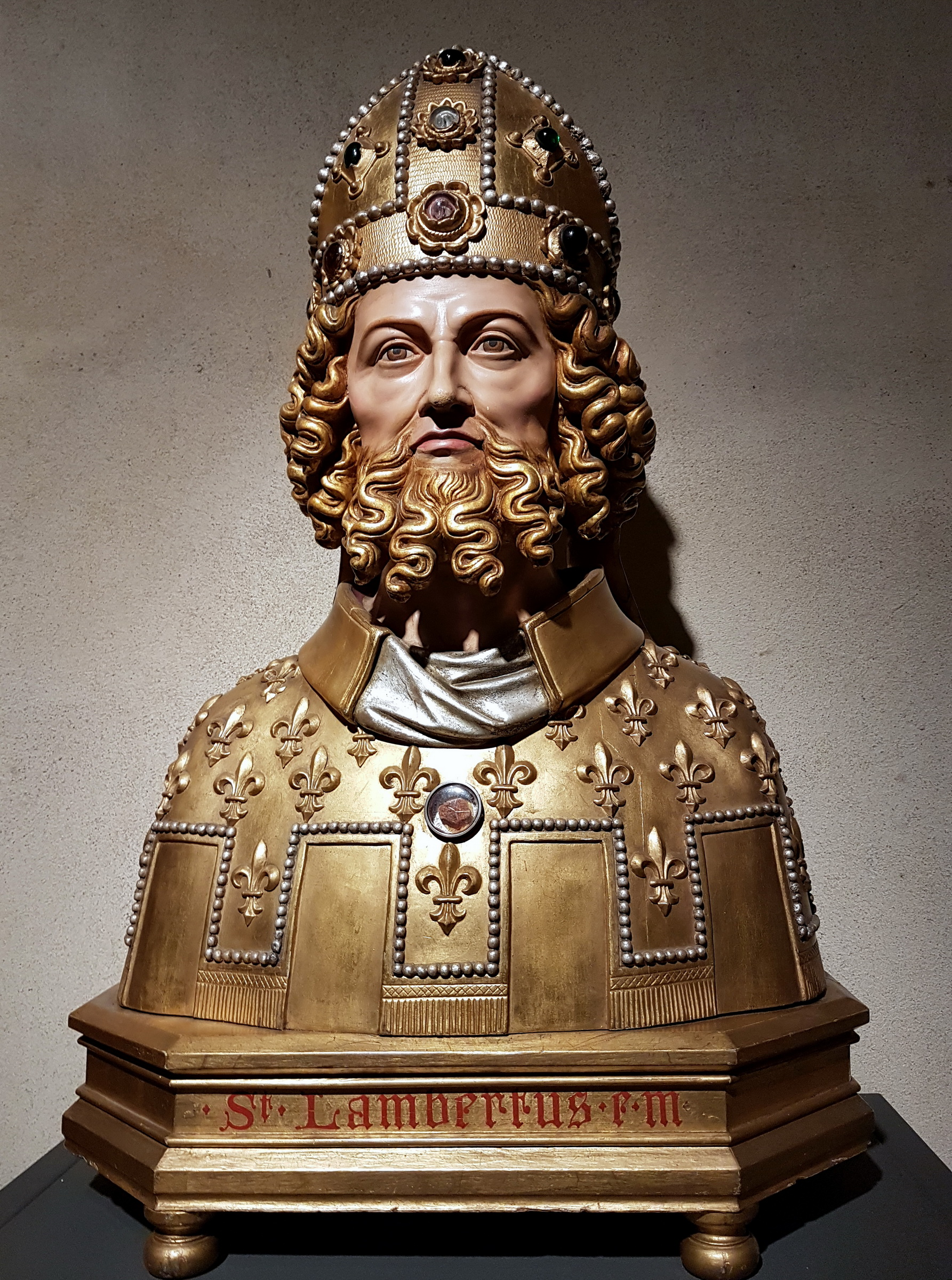 19th-century reliquary bust of Saint Lambert in the Treasury of the Basilica of Saint Servatius in Maastricht, the Netherlands.